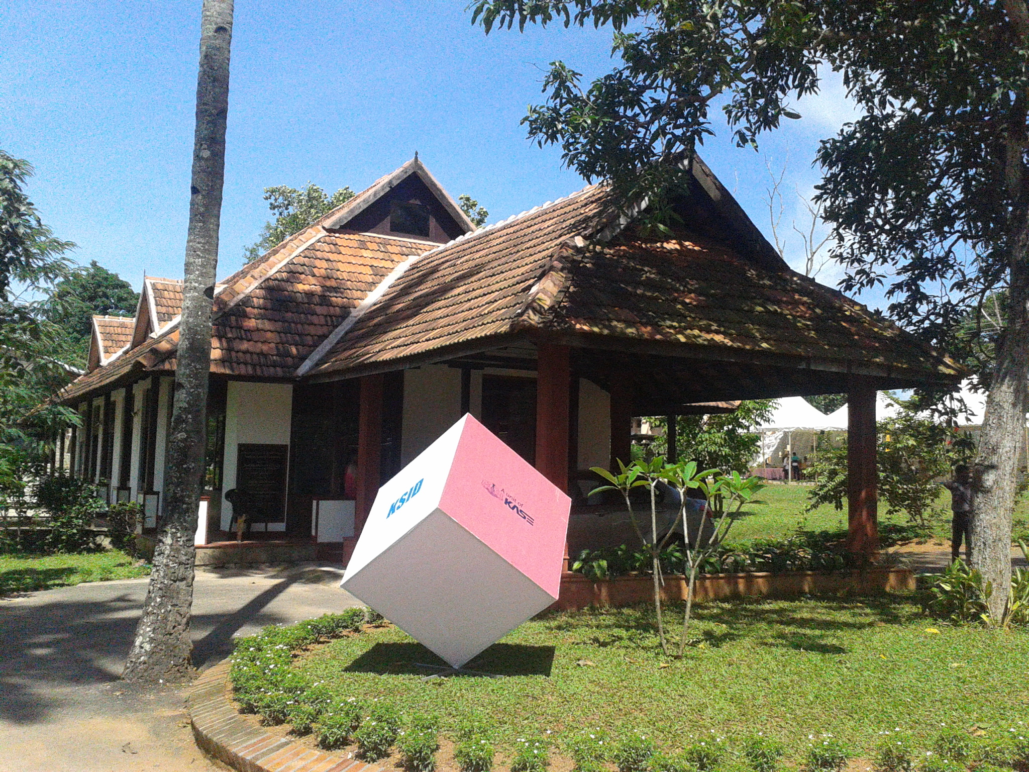 The Kerala State Institute of Design (KSID), Kollam campus